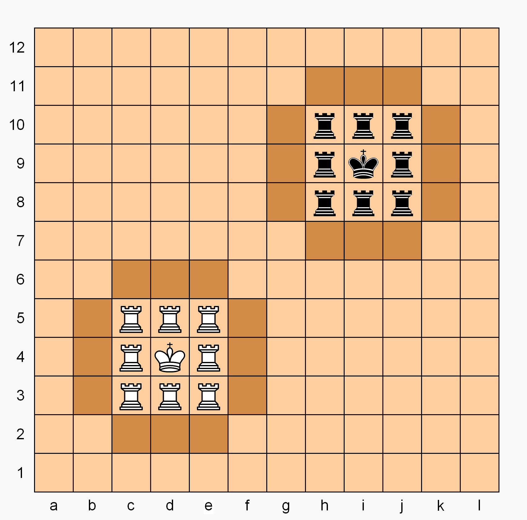 Chad starting position; the graphic uses User:Cburnett's free-use icons